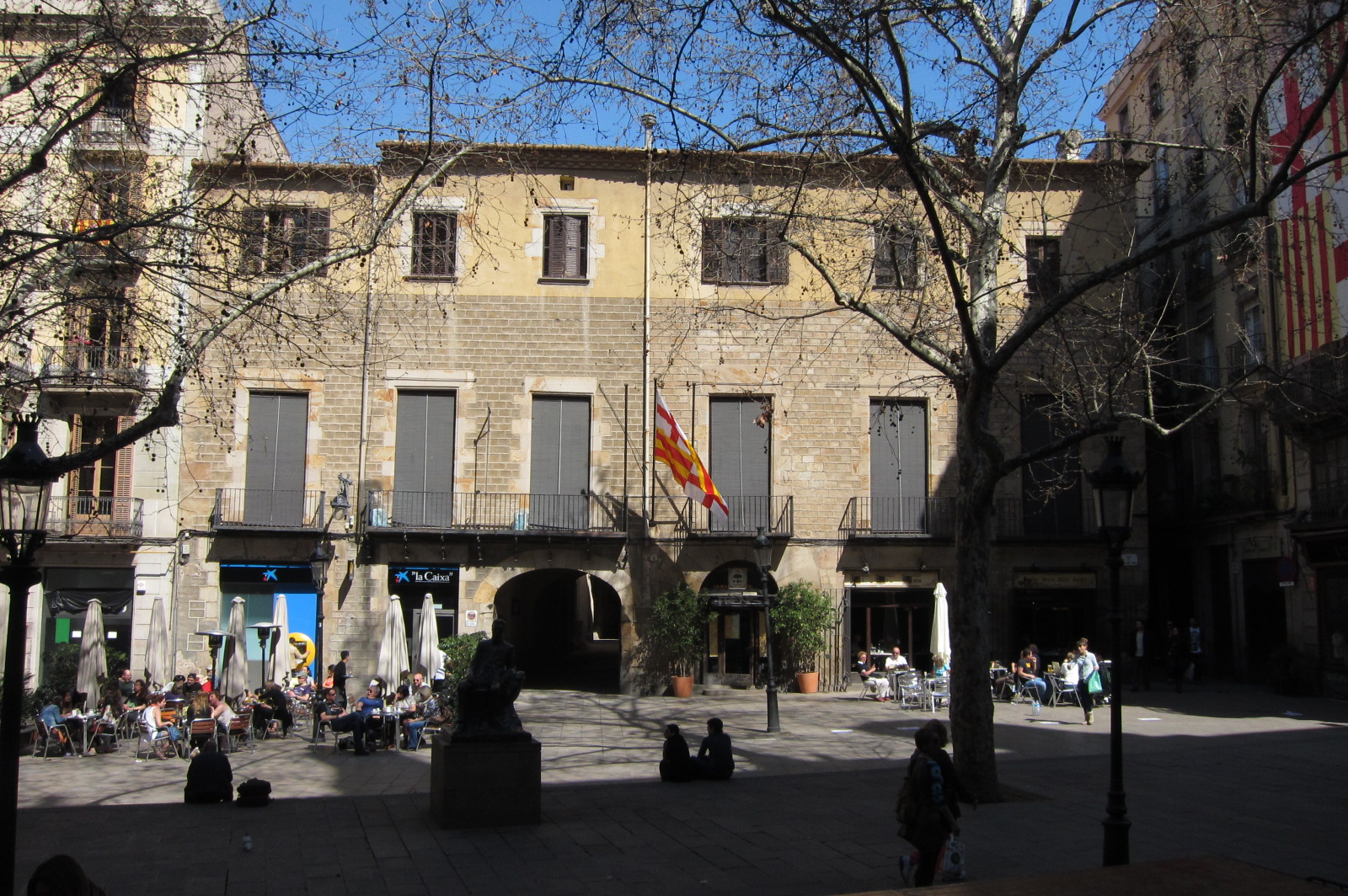 Institut Agricola Catala de Sant Isidre. Palau Fivaller